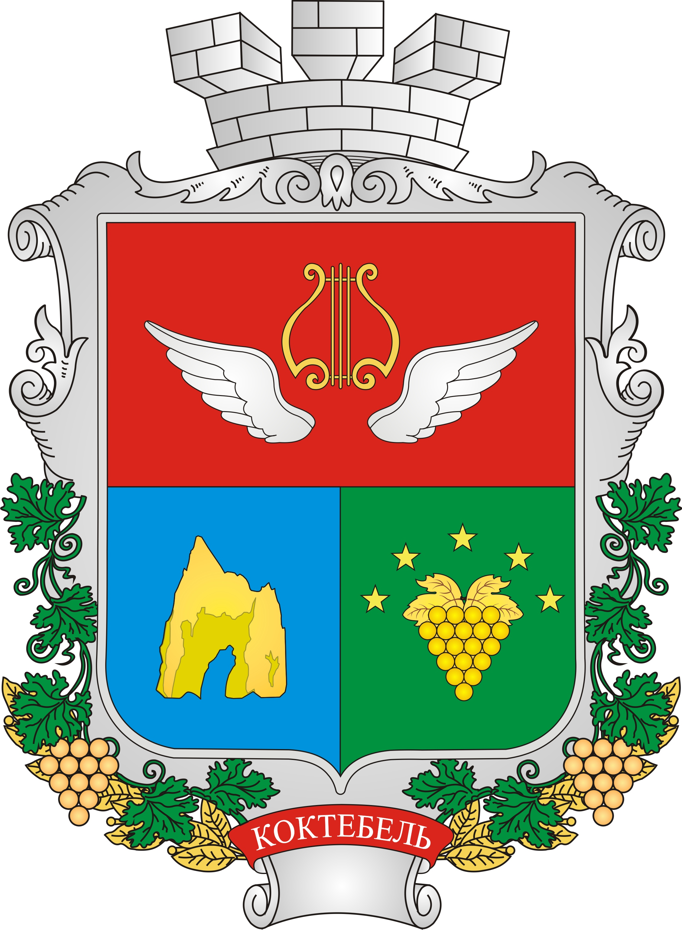 National Emblem of Koktebel